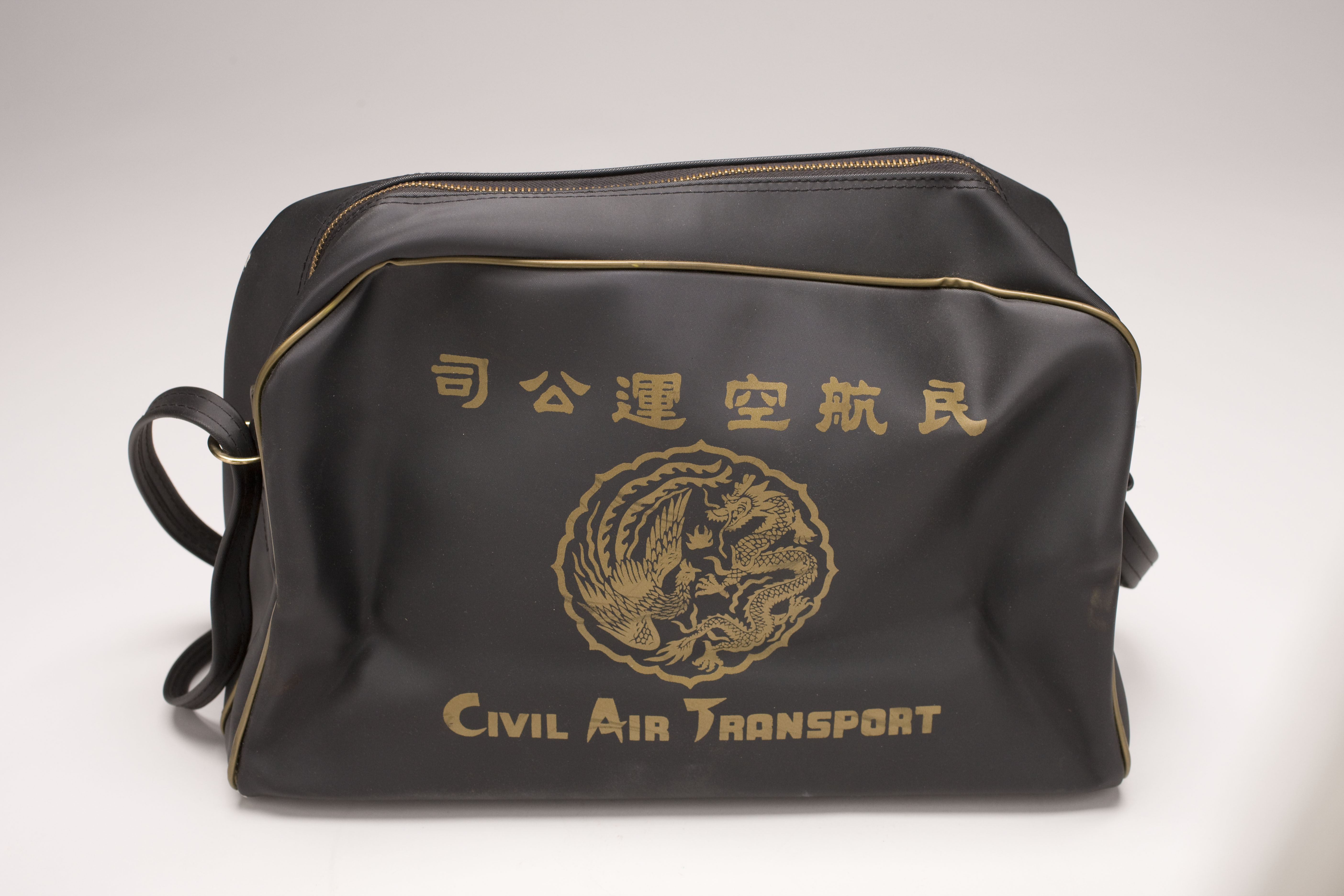 CAT travelers received flight bags as complementary gifts. For more information on CIA history and this artifact please visit